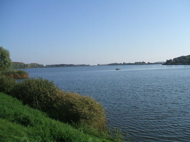 Prohn,_Germany,_See_(2006-09-24)